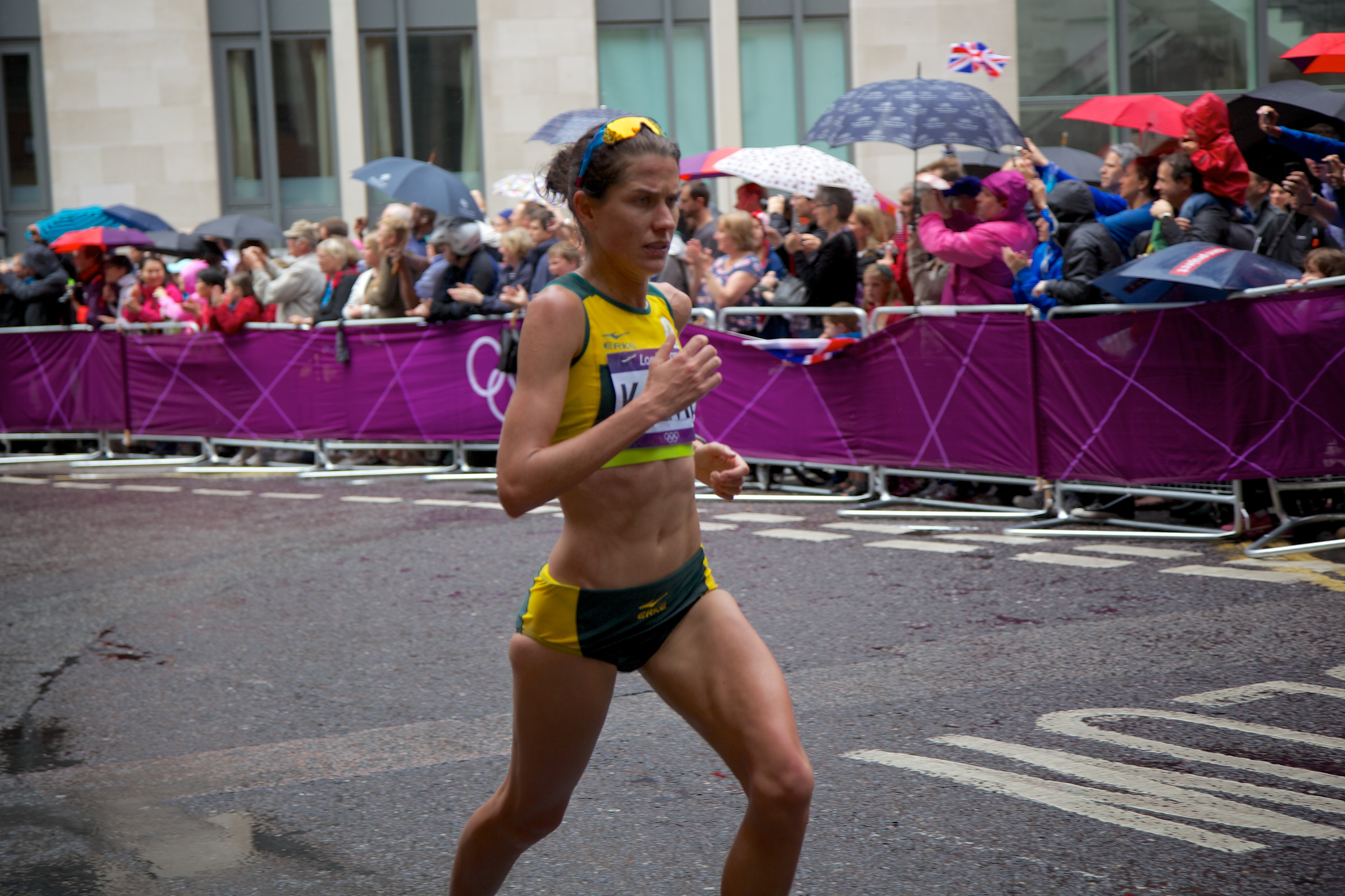 Women's Marathon